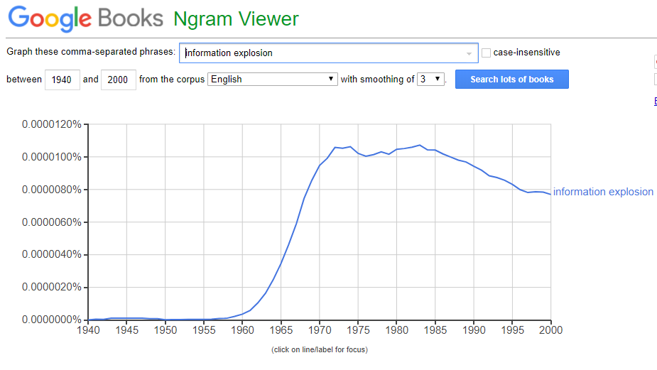 Information explosion